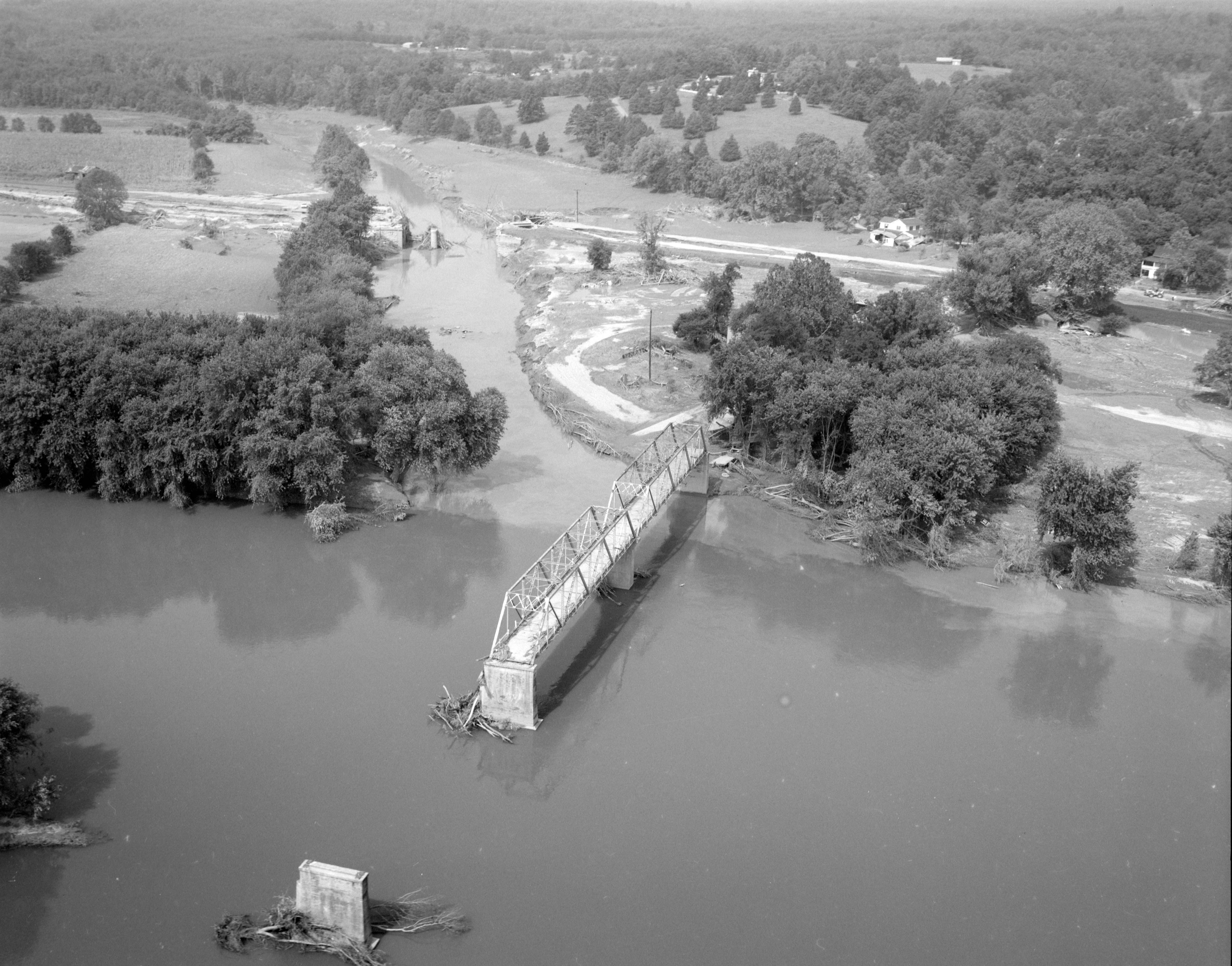 The Rt. 602 bridge over the James River still has sections standing, while the Rt. 626 bridge over the Rockfish River has been completely swept away. Located in Howardsville, Nelson County. No. 69-2224, Virginia Governor's Negative Collection, Library of Virginia.